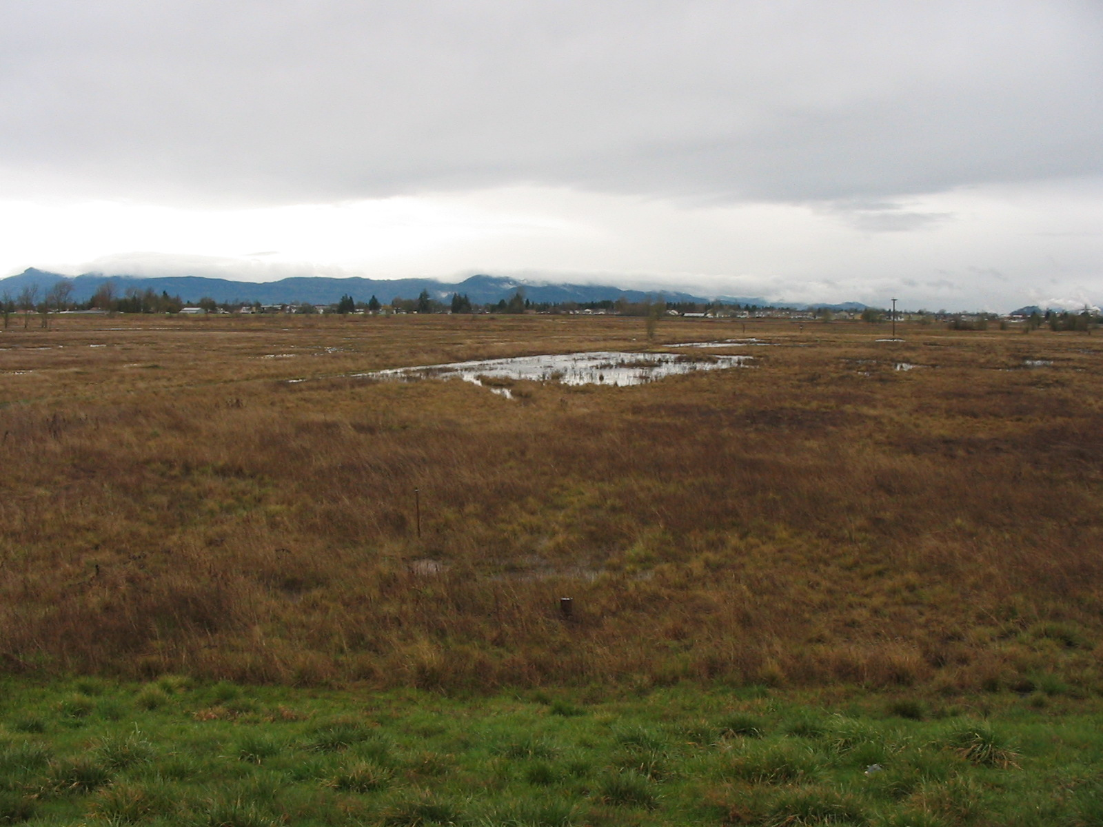 Wetlands, West Eugene, Oregon, United States